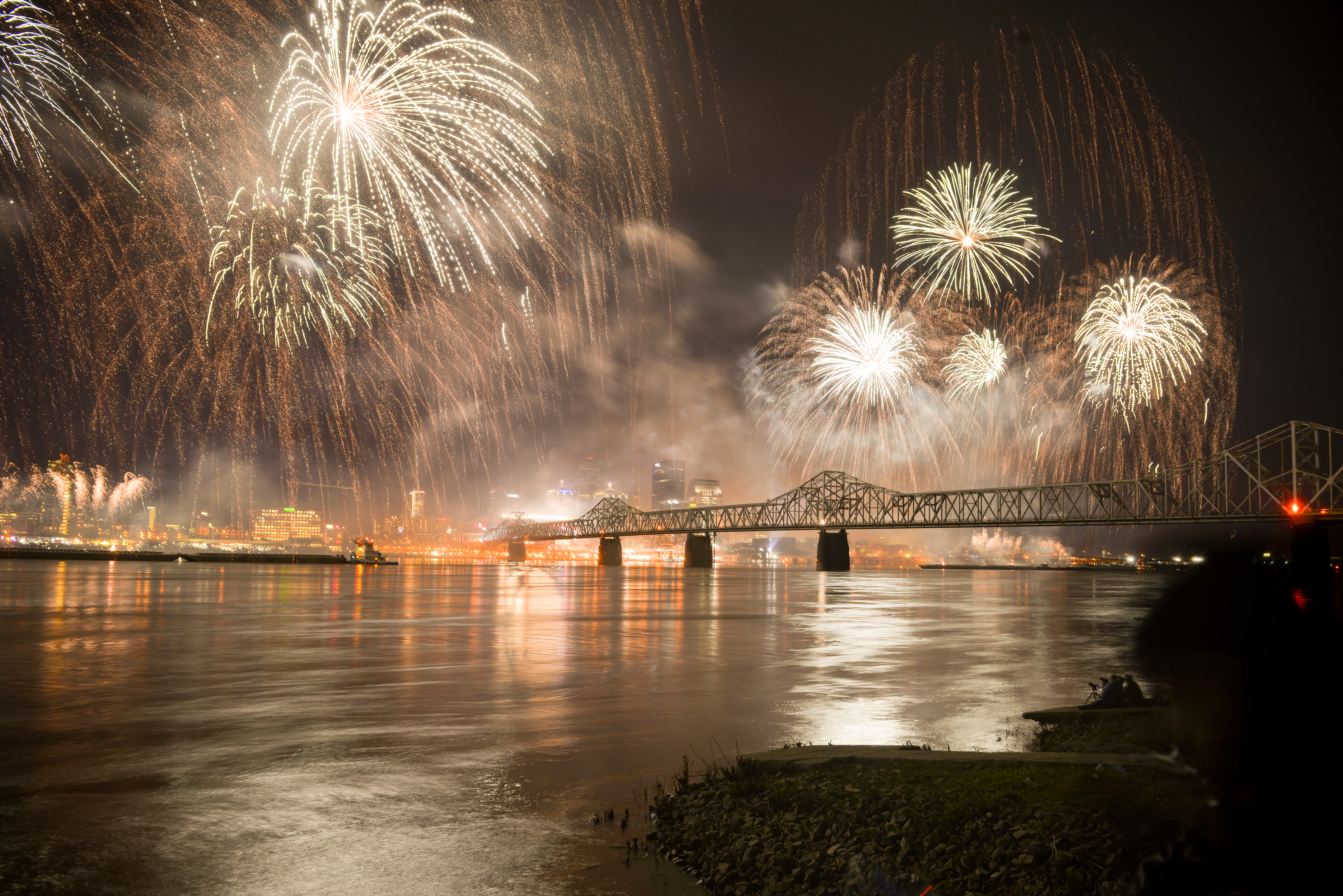 2018 show from the upstream side of the bridge on the Indiana shore of the Ohio River, Photo credit Aroun Kesavaraj